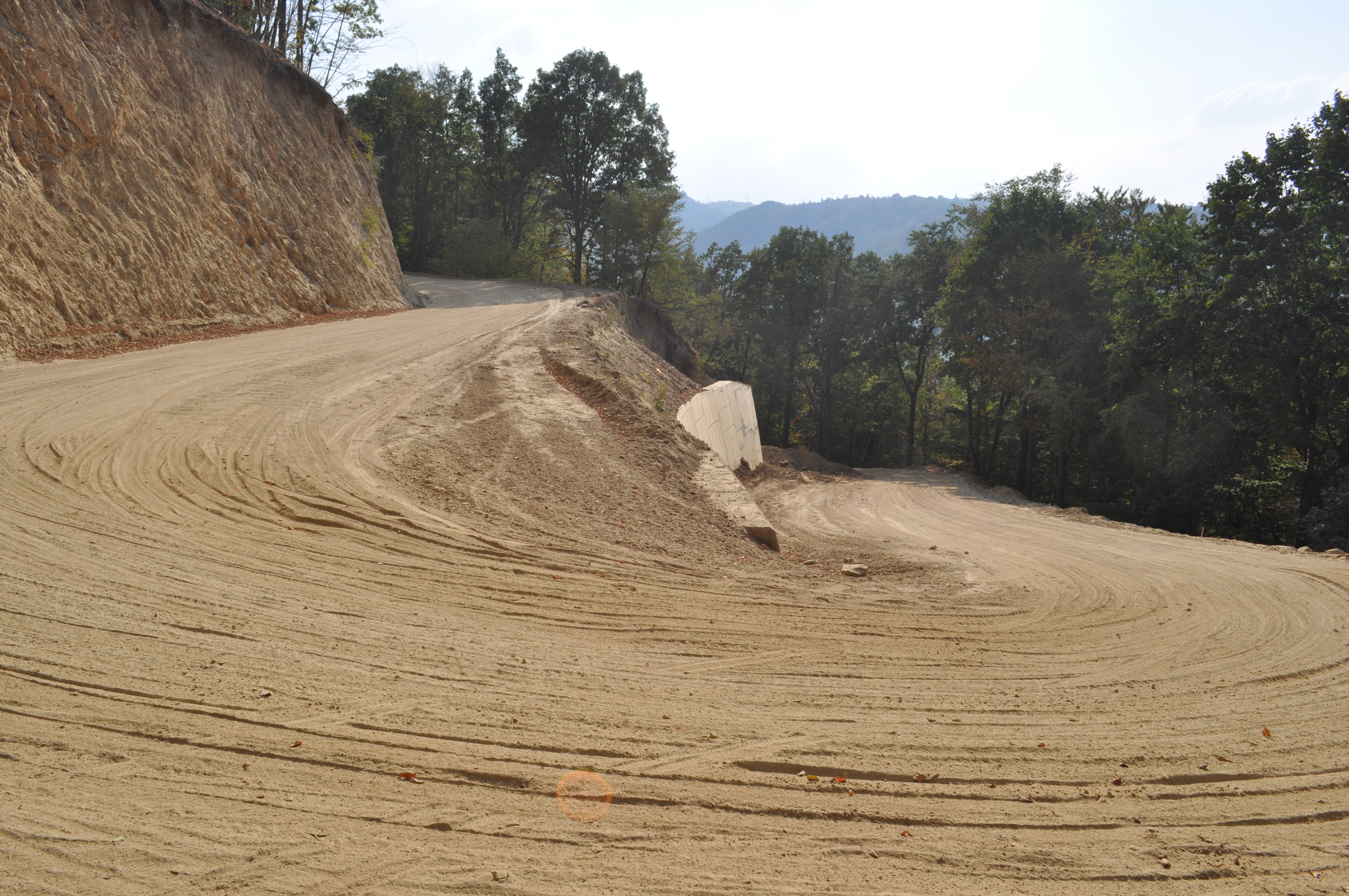 Transalpina (DN67C) Road, Romania